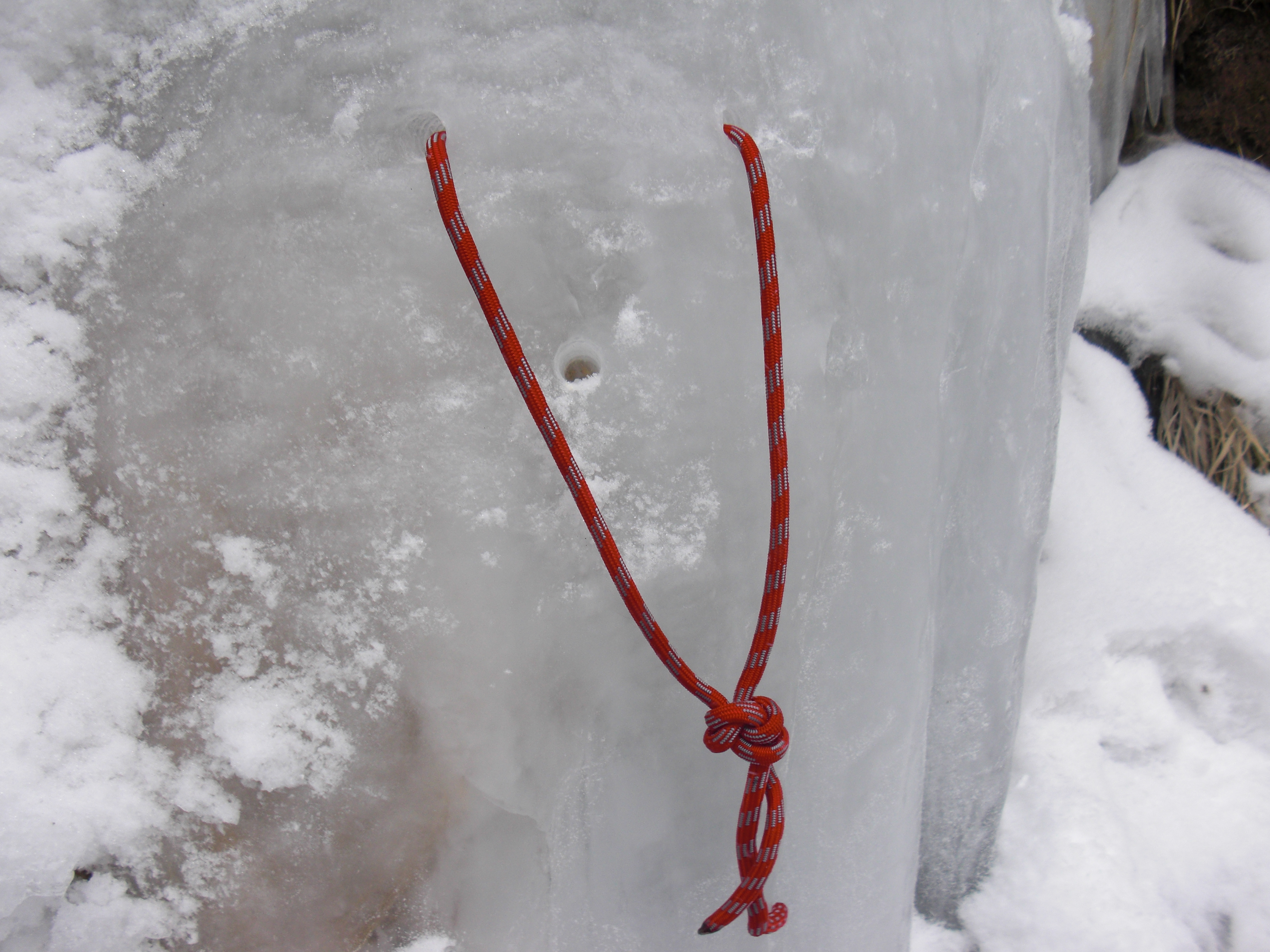 Abalakov thread a.k.a. v thread at Yamanokami fall at Yatsugatake, Nagano, Japan V字スレッド。八ヶ岳南部、山の神の滝で撮影。